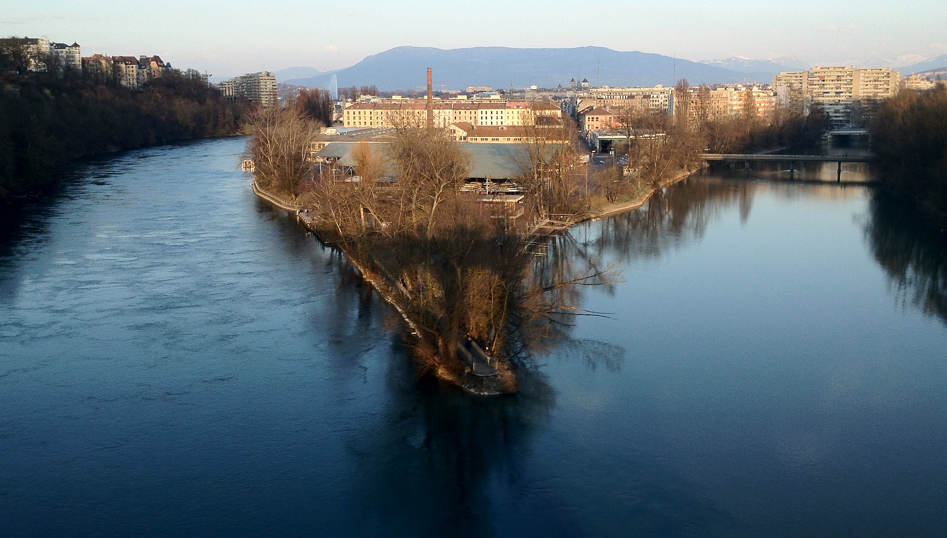 Confluence of river Rhone and Arve in Geneva.